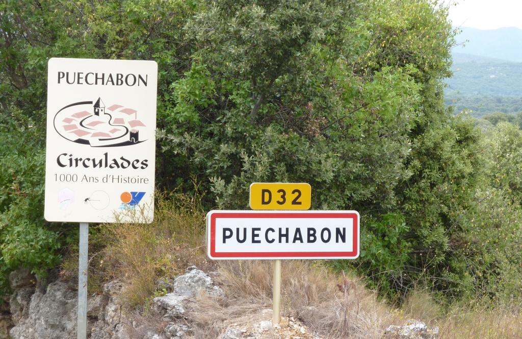 Puéchabon Village Sign